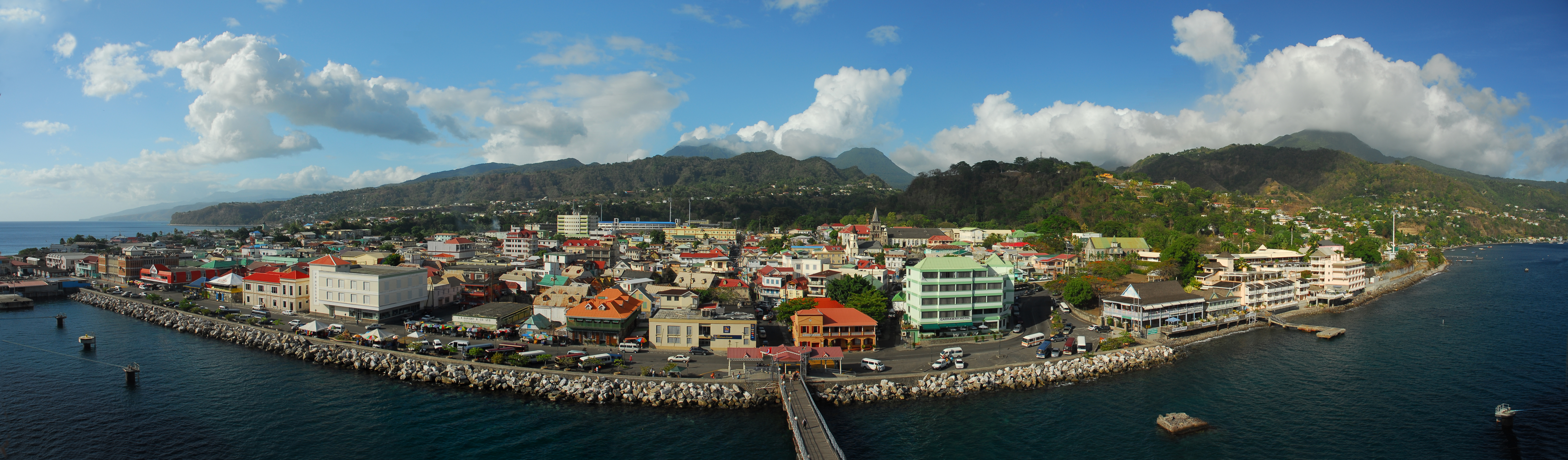 Pano-wide image of Roseau Dominica Taken from cruise ship Balcony Docked in town.